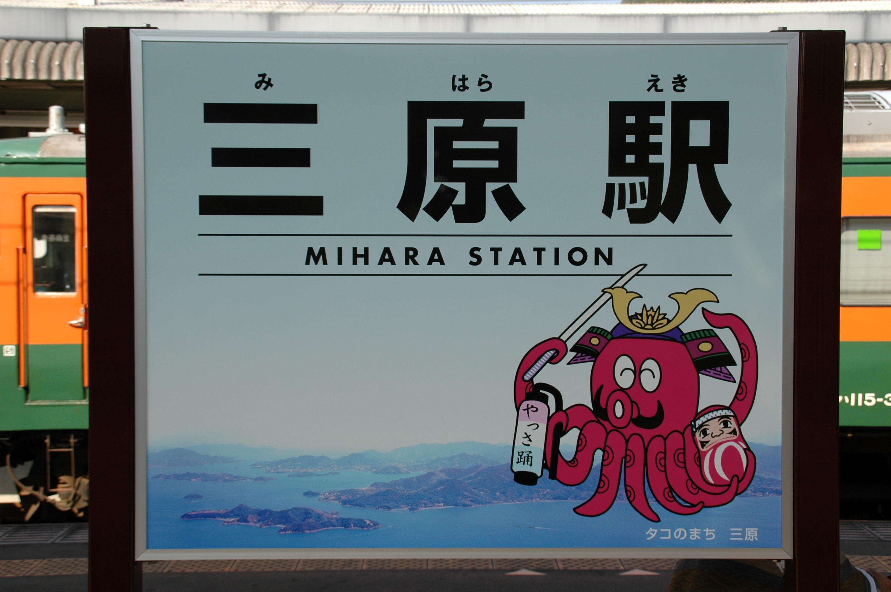 JR-WEST(JAPAN) Mihara Sta. Station name sign. photo by 2005.10.9